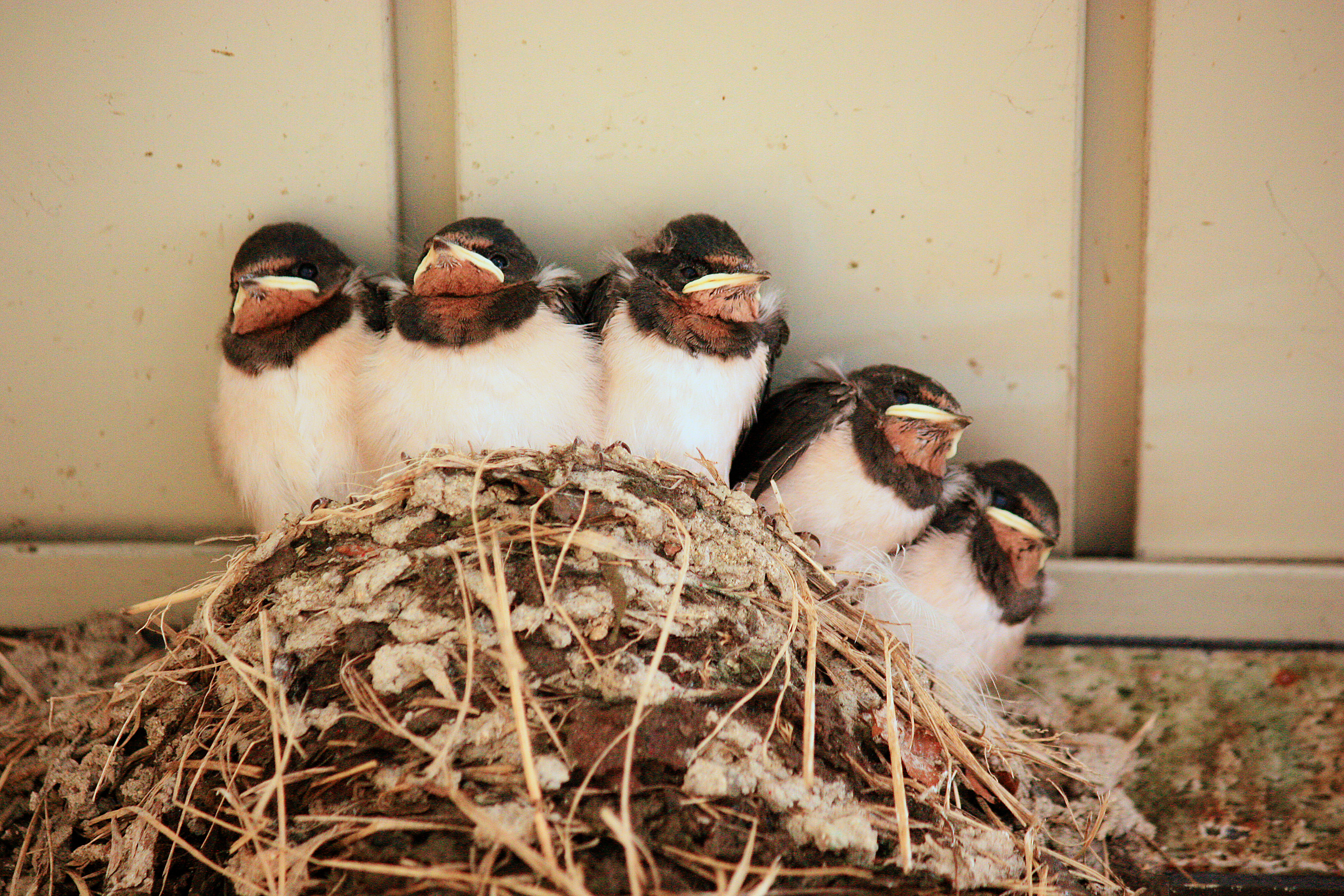 Barn Swallow chicks in their nest in Japan